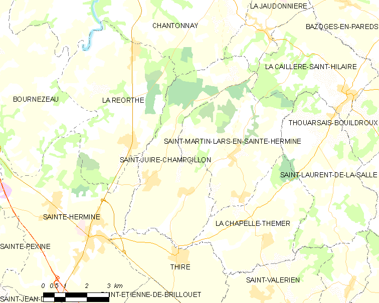 Map of French municipality Saint-Juire-Champgillon